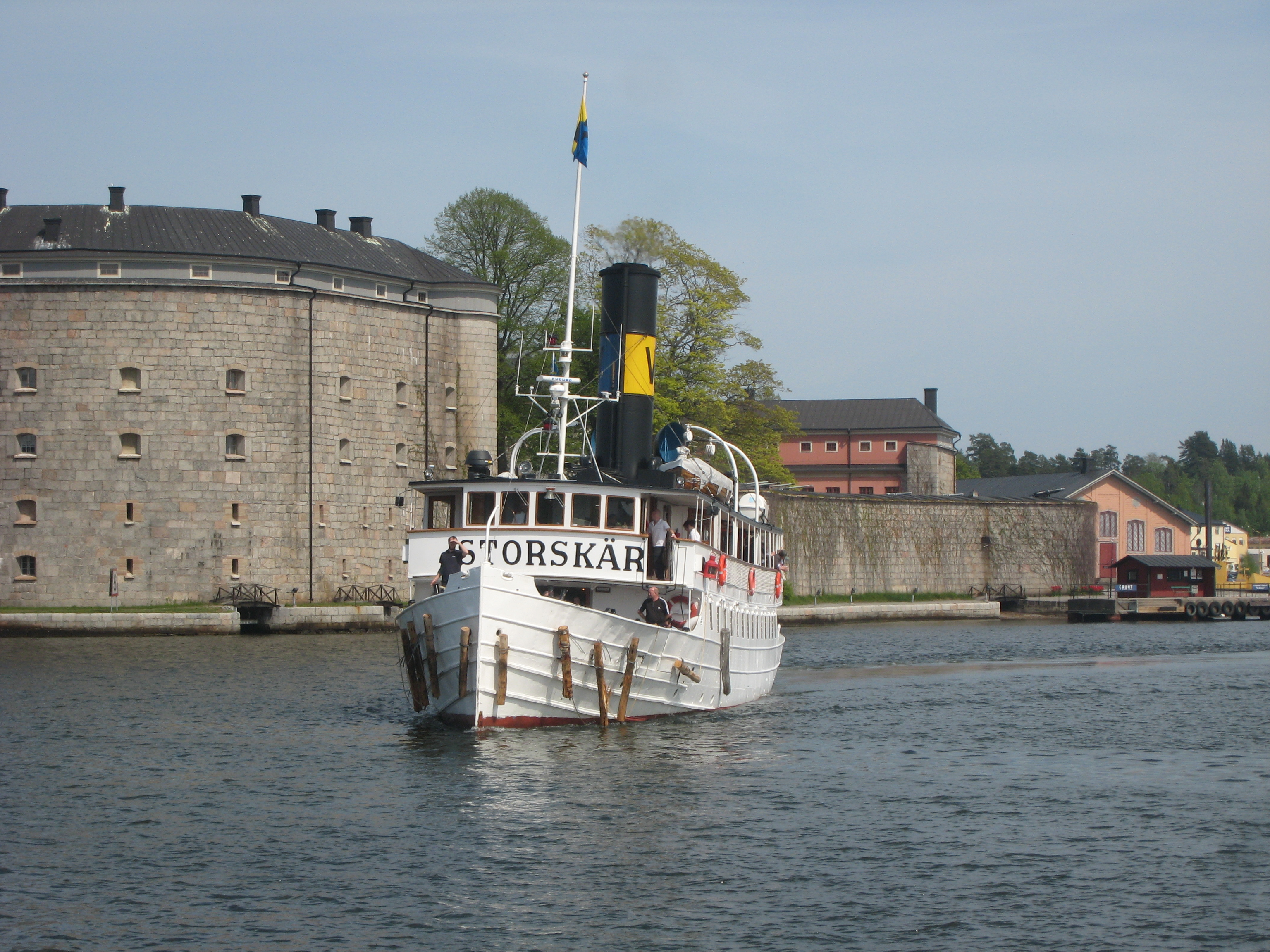 S/S Storskär. Built on Lindholm’s shipyard in 1908 and bought by Waxholmsbolaget in 1939. Still steam operated.